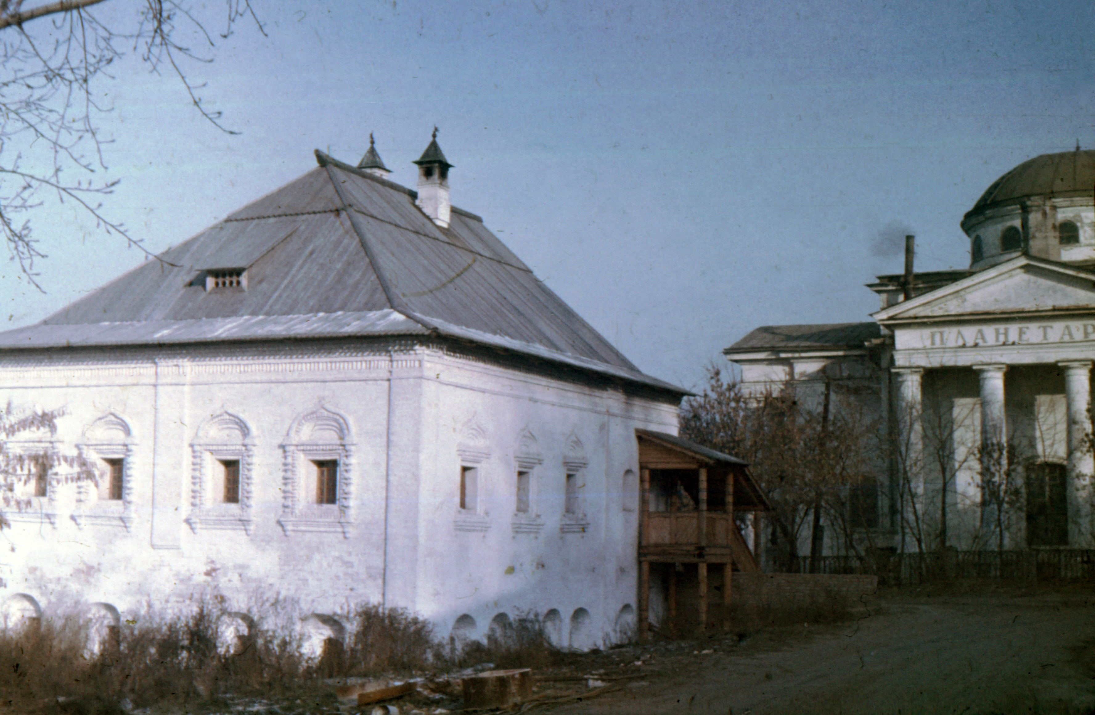 Gorky City (now Nizhny Novgorod) in 1980s. Planetarium in former Saint Alexius Church.